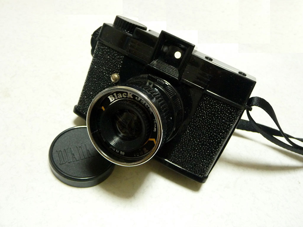 DianaF+ by Lomography.